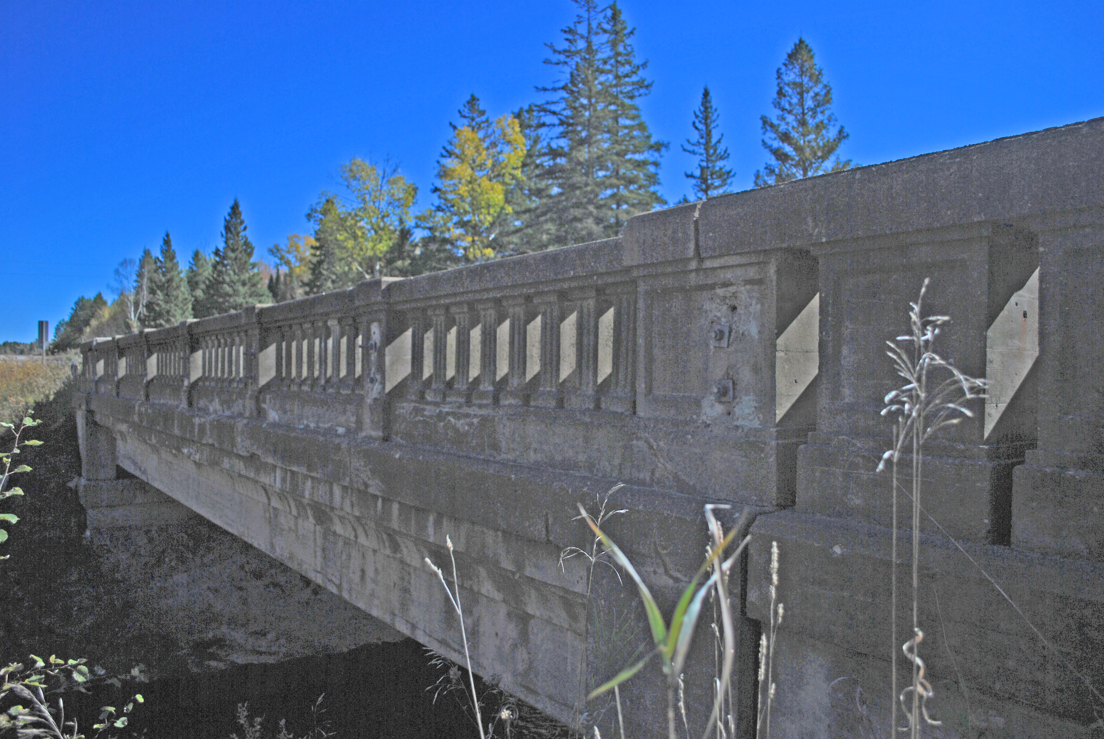 M-28–Tahquamenon River Bridge-Chippewa County, MI